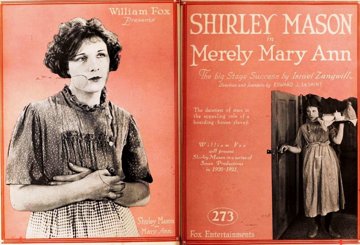 Advertisement for the American comedy drama film Merely Mary Ann (1920) with Shirley Mason, from the insert after page 66 of the August 14, 1920 Exhibitors Herald.